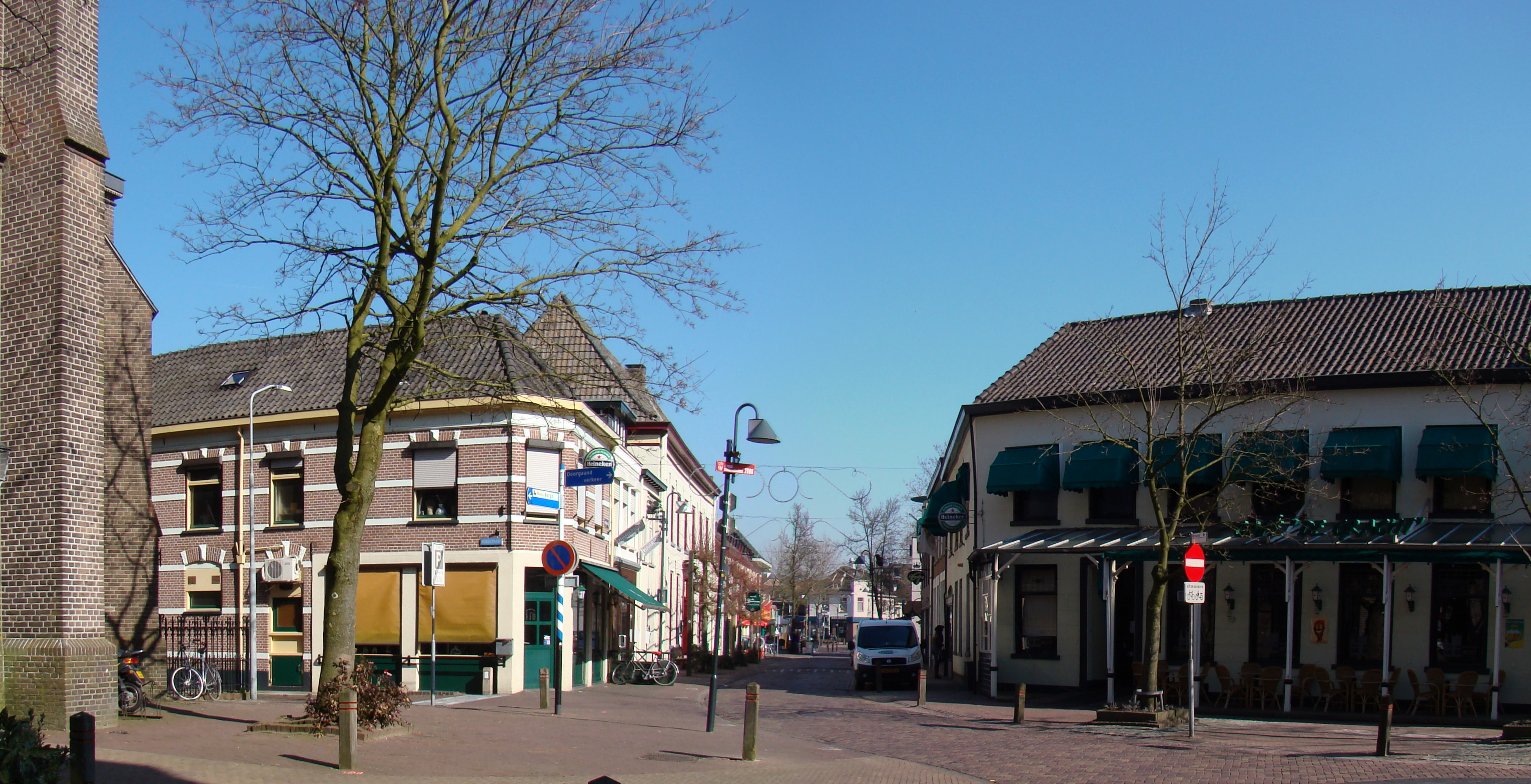 Millstreet 's Heerenberg Netherlands